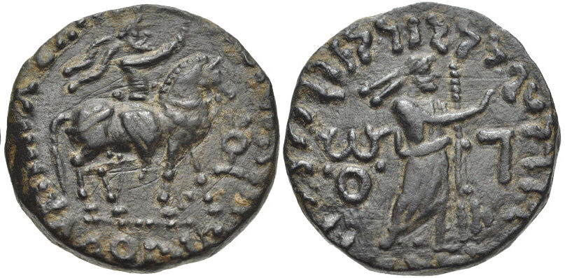 Gondophares-Sases. Circa AD 19-20-46. Tetradrachm (21mm, 9.64 g, 3h). Gandharan mint. Sases on horseback right, raising right arm Zeus standing right, holding scepter